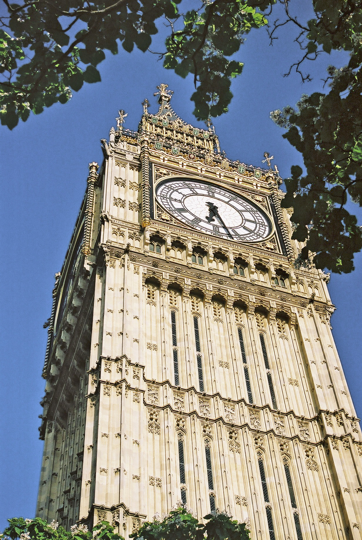 Big Ben in London, England, United Kingdom